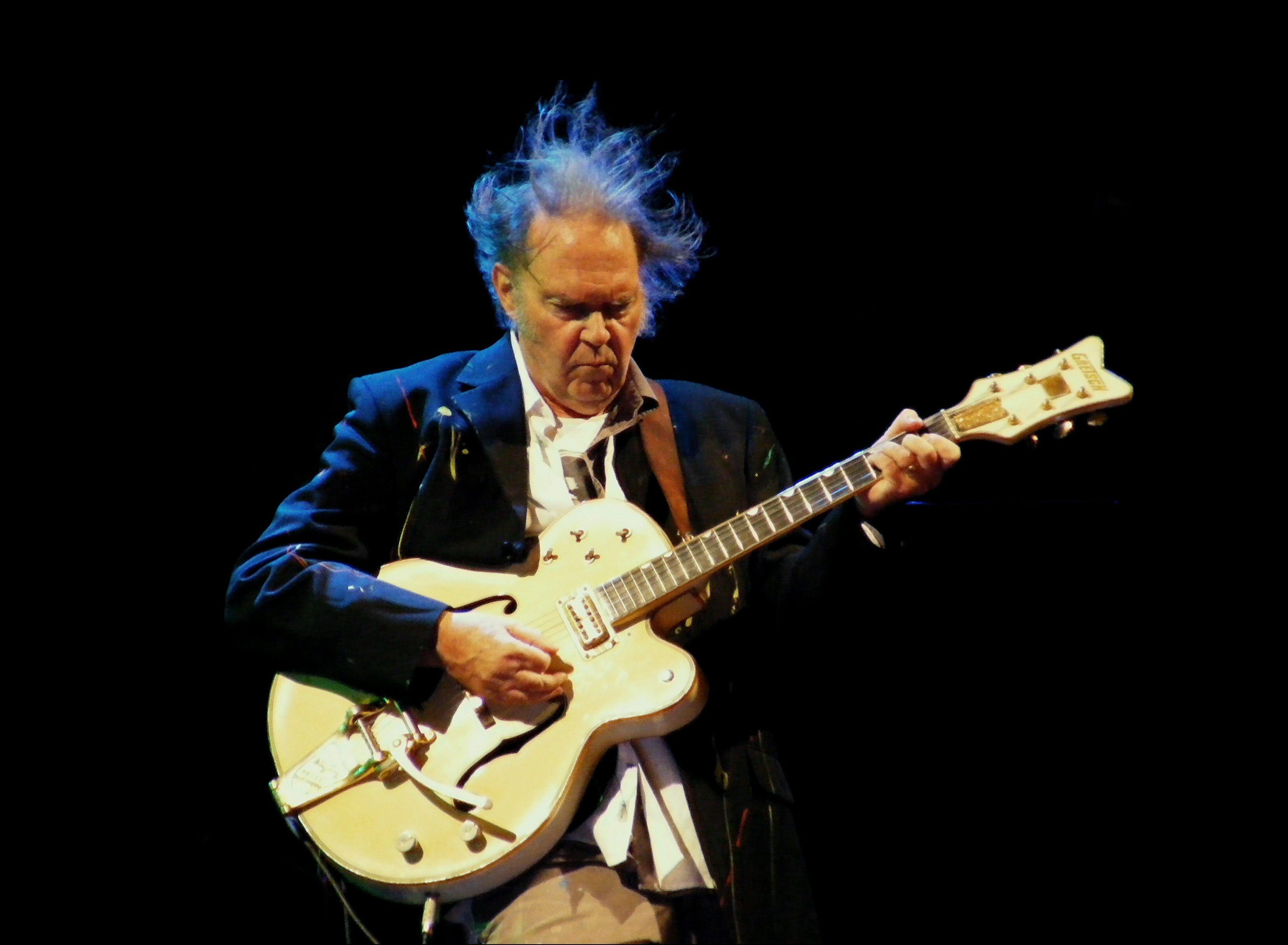 Neil Young, 2012.